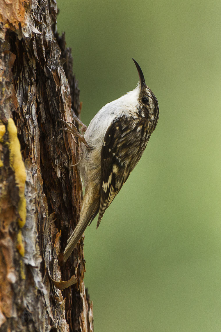 Brown Creeper - Sisters - Oregon_S4E6475